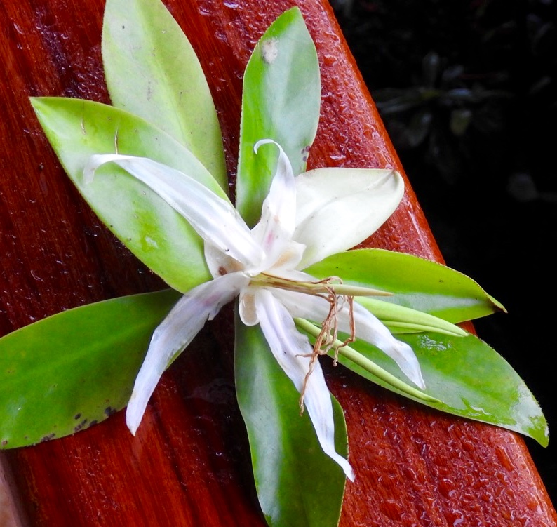 Flower of tea mangrove